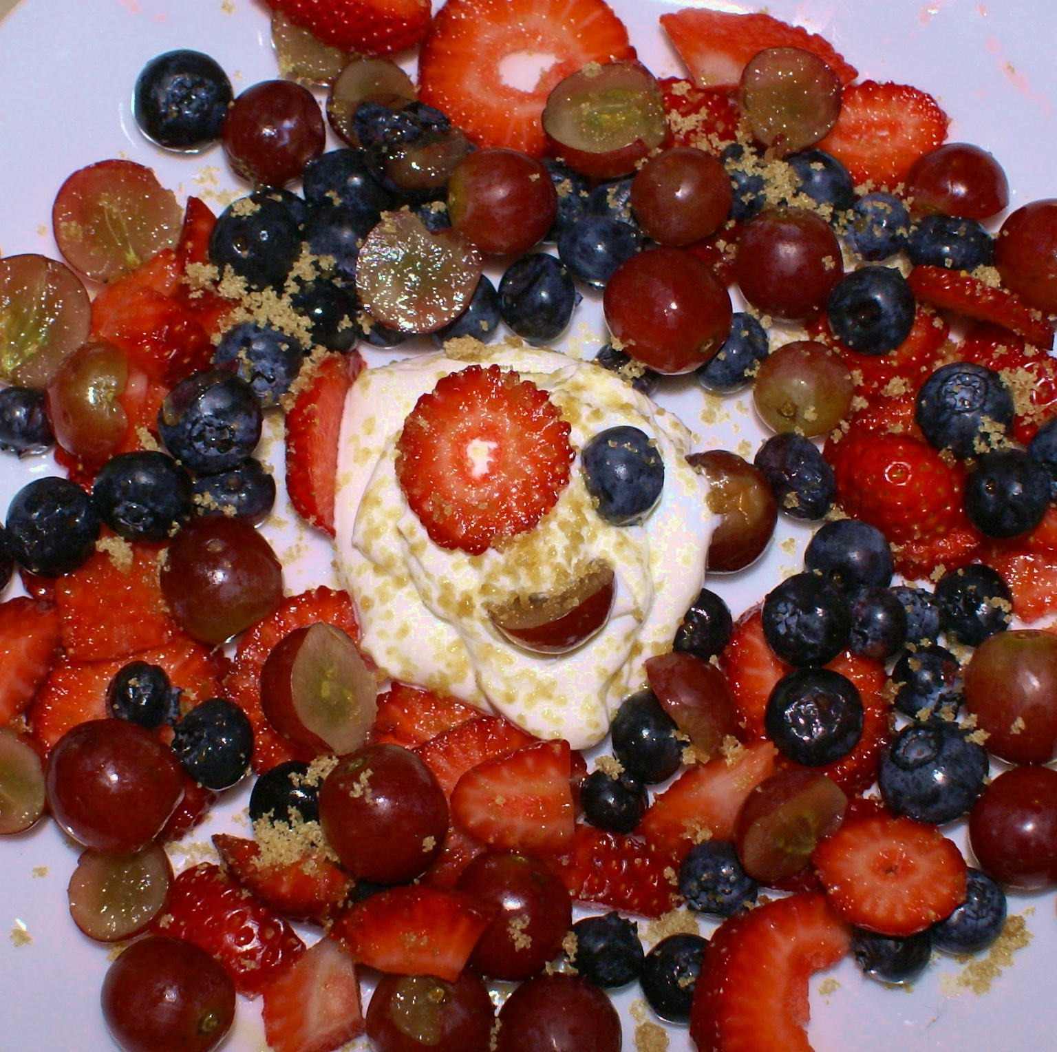 Mixed berries, dollop of light sour cream, sprinkling of brown sugar.